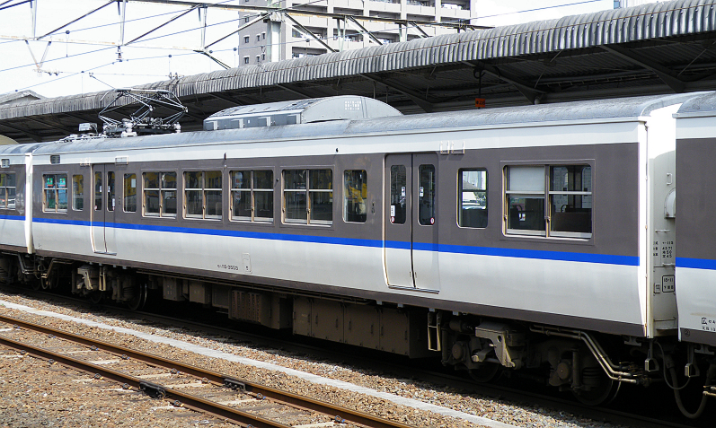 series 115 type moha115-3500 of JR West, Iwakuni Sta., Yamaguchi, Japan.